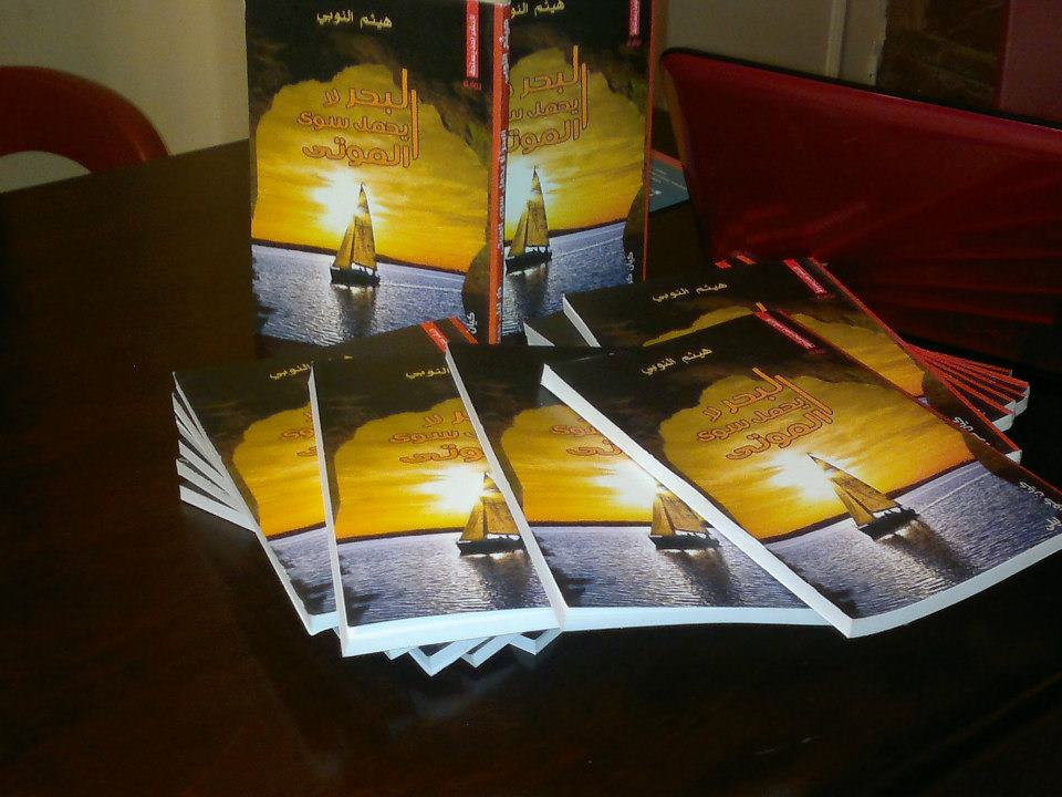 Egyptian novel